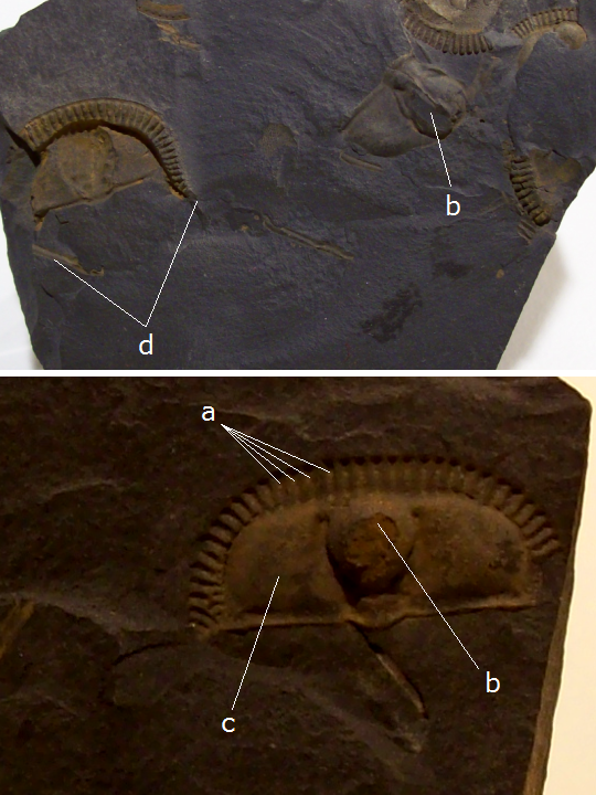 Trinucleus fimbriatus (Trilobita, Ptychopariida, Trinucleidae). Cephala fragments from Builth Welles (Wales). Main remarkable characters visible on these specimens: a) pits on the cephalic fringe; b)strongly convex, globose glabella; c)inflated genae; d) rarely preserved genal spines (broken in this specimen). This species lacks the typical compound eyes of most trilobites.